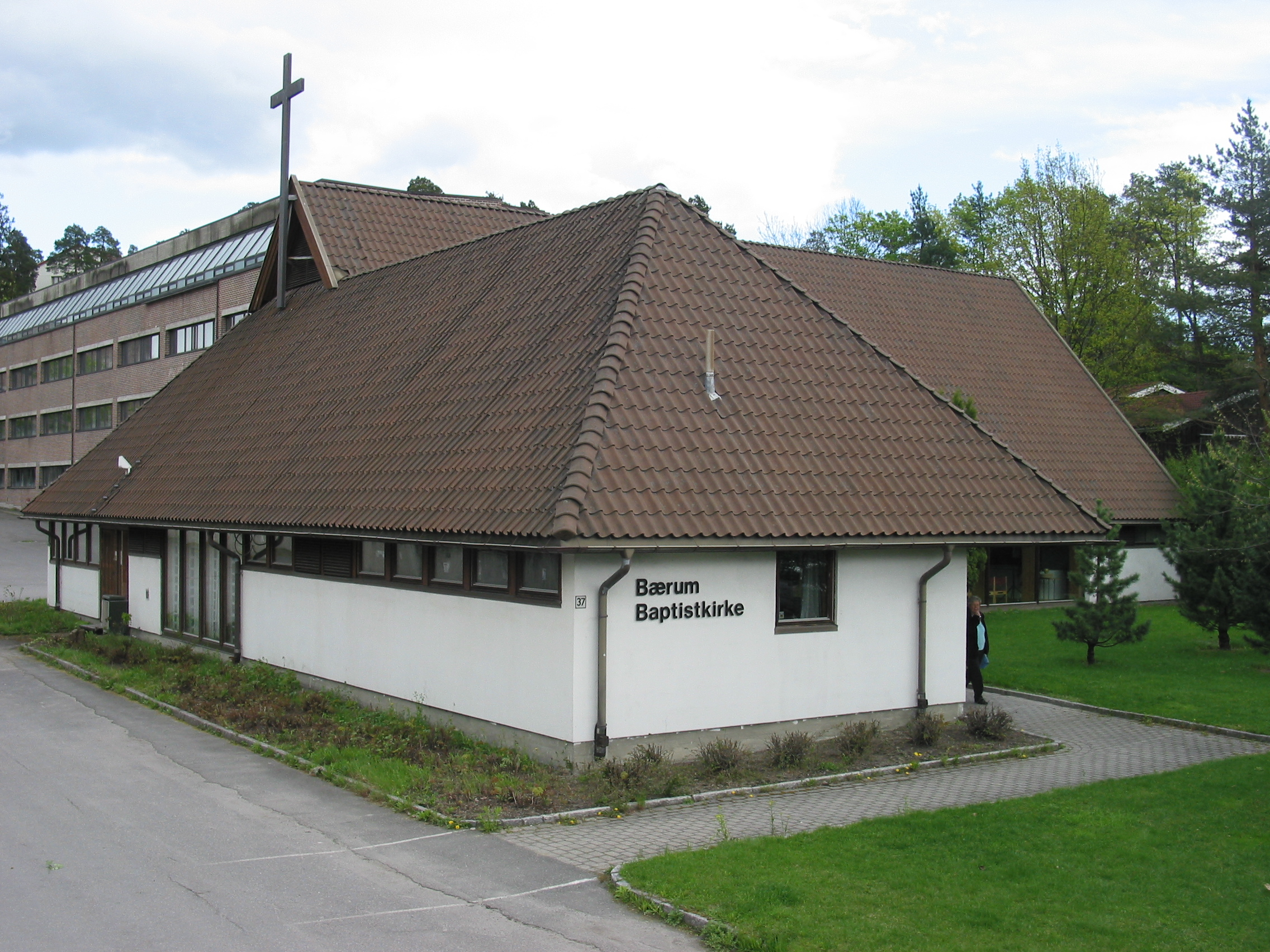 The Baptist Church at Holtet, Strand, Bærum, Akershus, Norway.